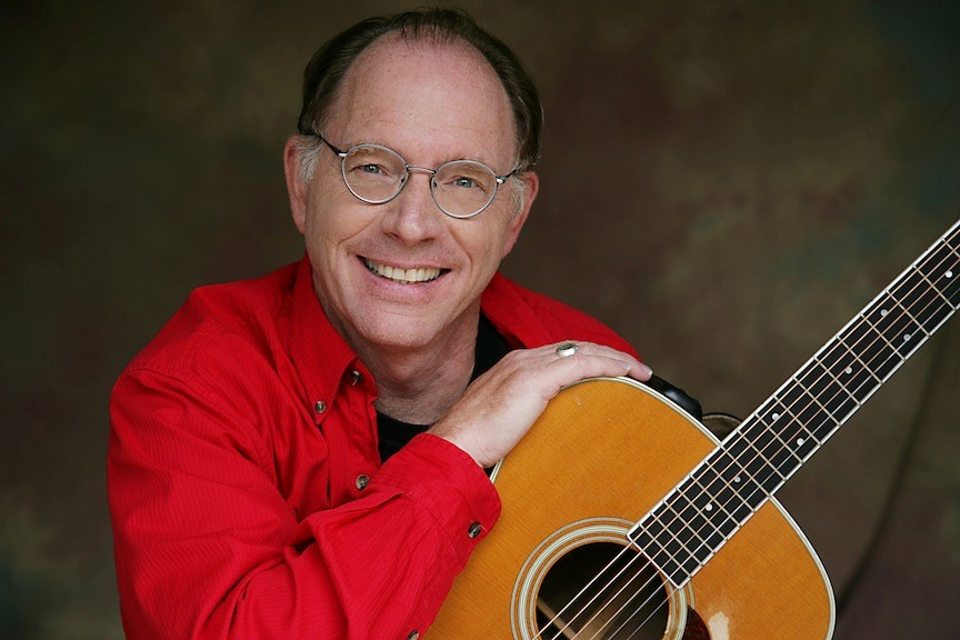 Red Grammer, nationally known Children's Singer-Songwriter